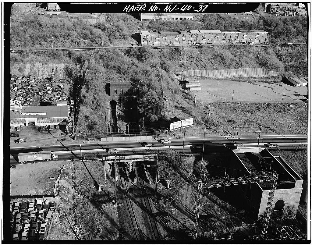 Bergen Hill-North Bergen-Western portal of North River Tunnels under Hudson Palisades. Originally developed by PRR in 1910, and used by New Jersey Transit and Amtrak. Original electric substation lower right, adjacent to proposed portal for THE Tunnel/Gateway Tunnel. Tonnelle Avenue (Route 1/9) in foreground.